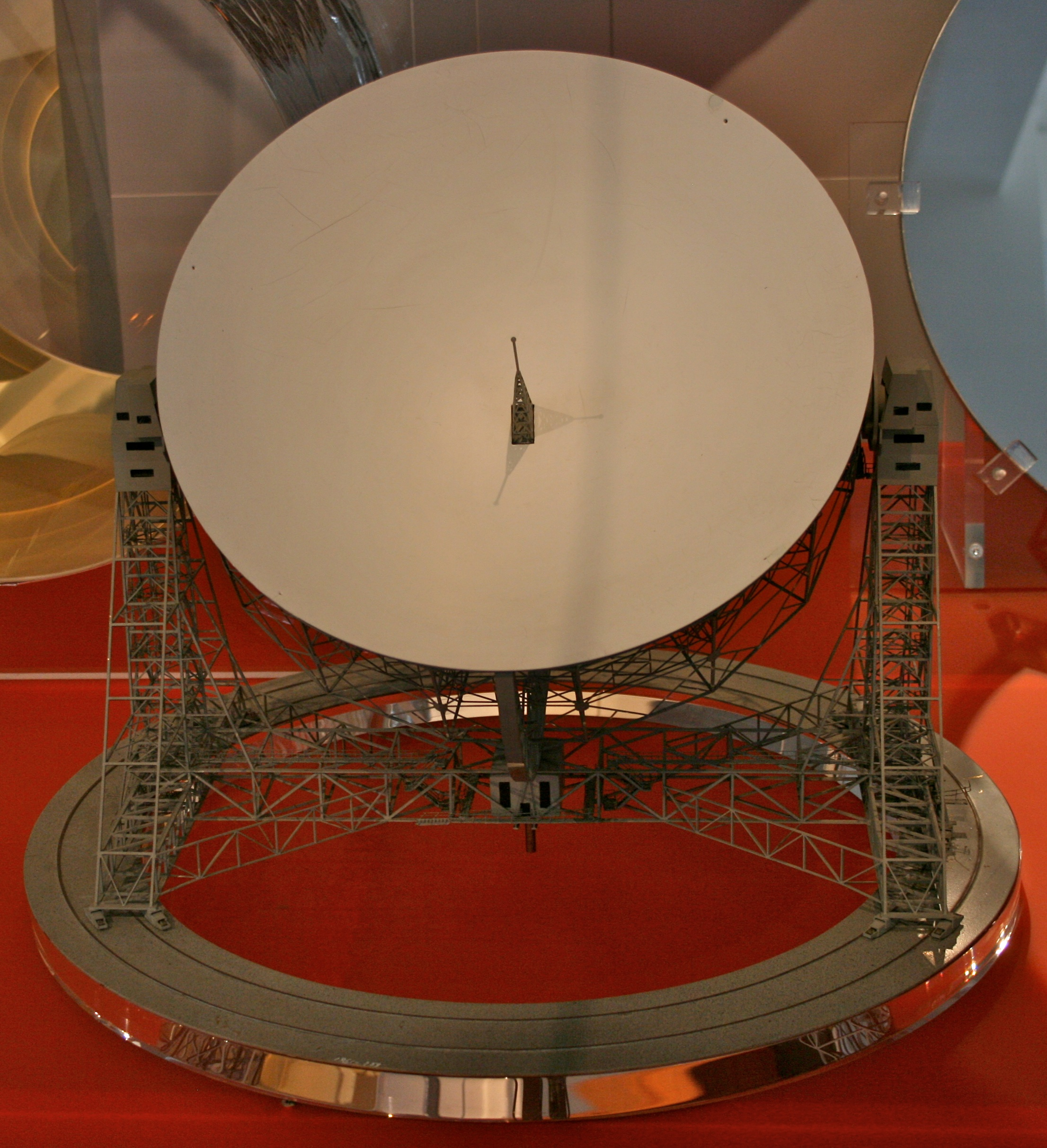 Mark 1 Lovell Telescope, on display in the Science Museum, London.